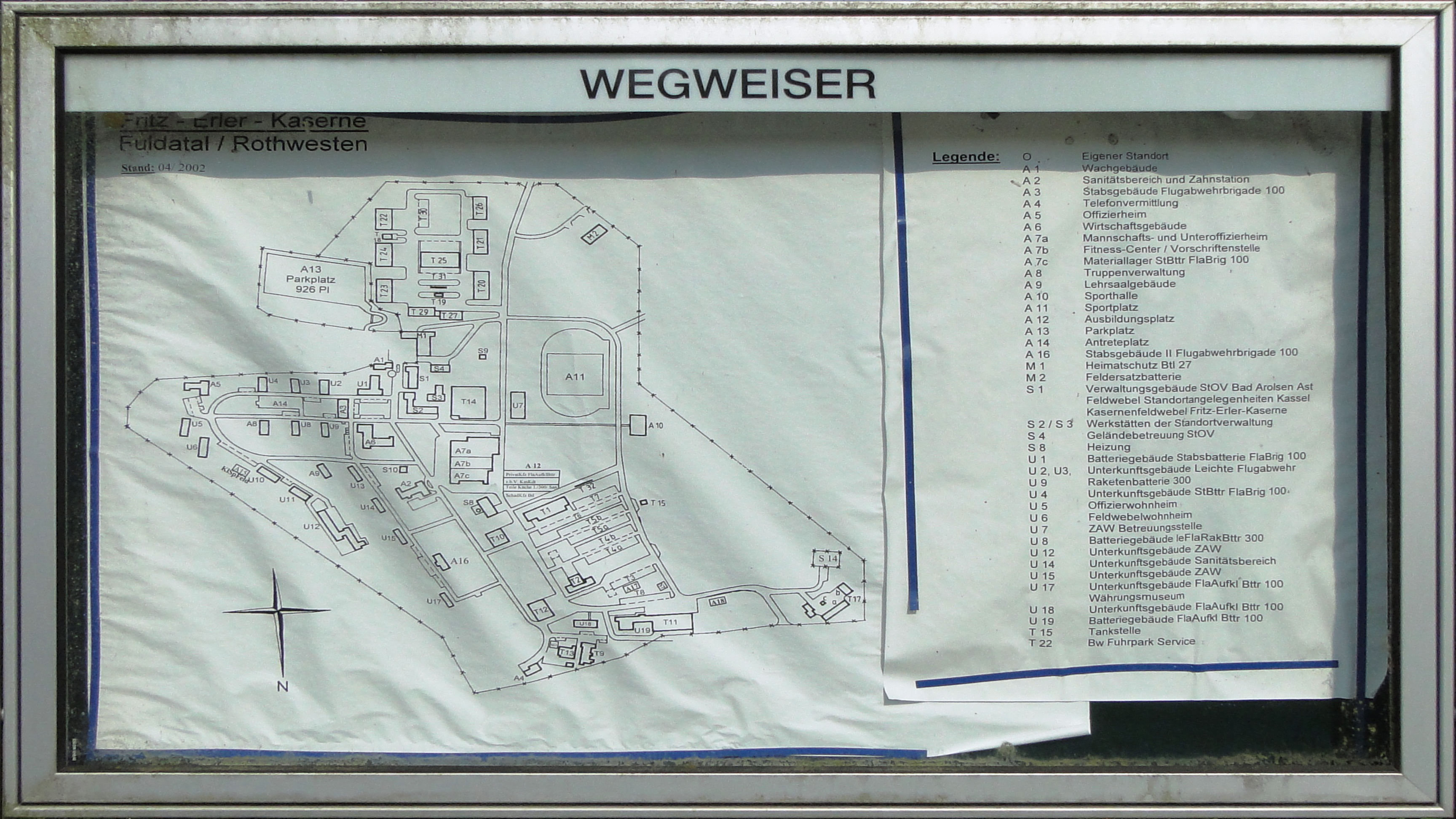 Map with key near the gate (location A1 on the map) of the former Fritz Erler Kaserne/Airfield Rothwesten at Fuldatal Rothwesten near Kassel, Germany. Status as of April 2002. June 2015.